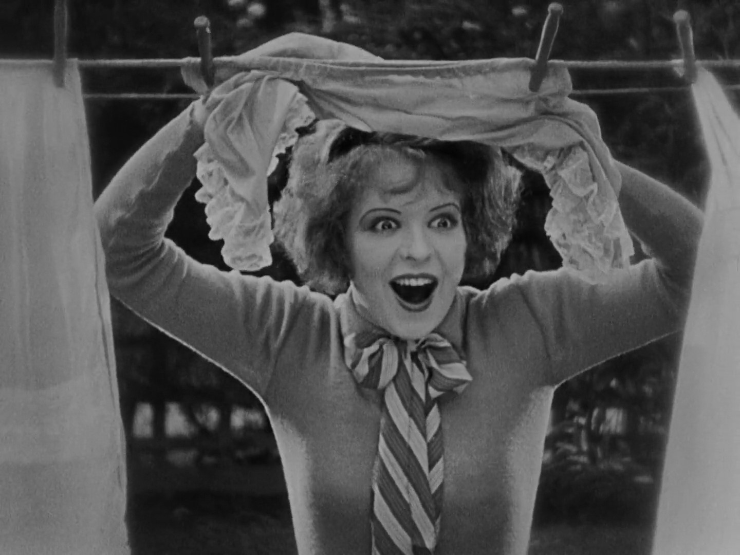 Cropped screenshot of Clara Bow from the film Wings